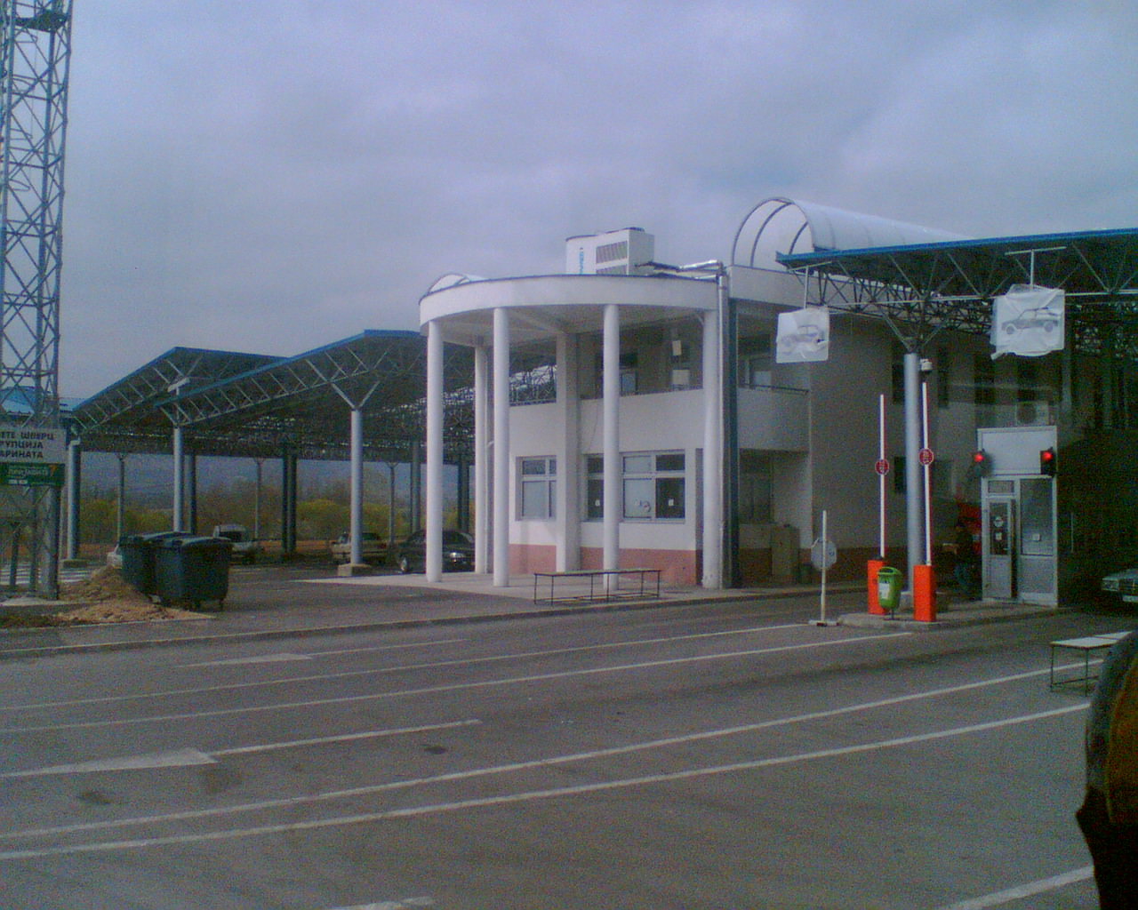 Border crossing Tabanovce (MK)